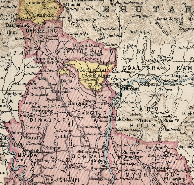 Map of Cooch Behar and surrounding regions